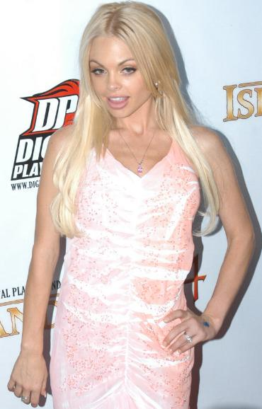 Jesse Jane at Digital Playground party for movie Island Fever 4, September 17 2006